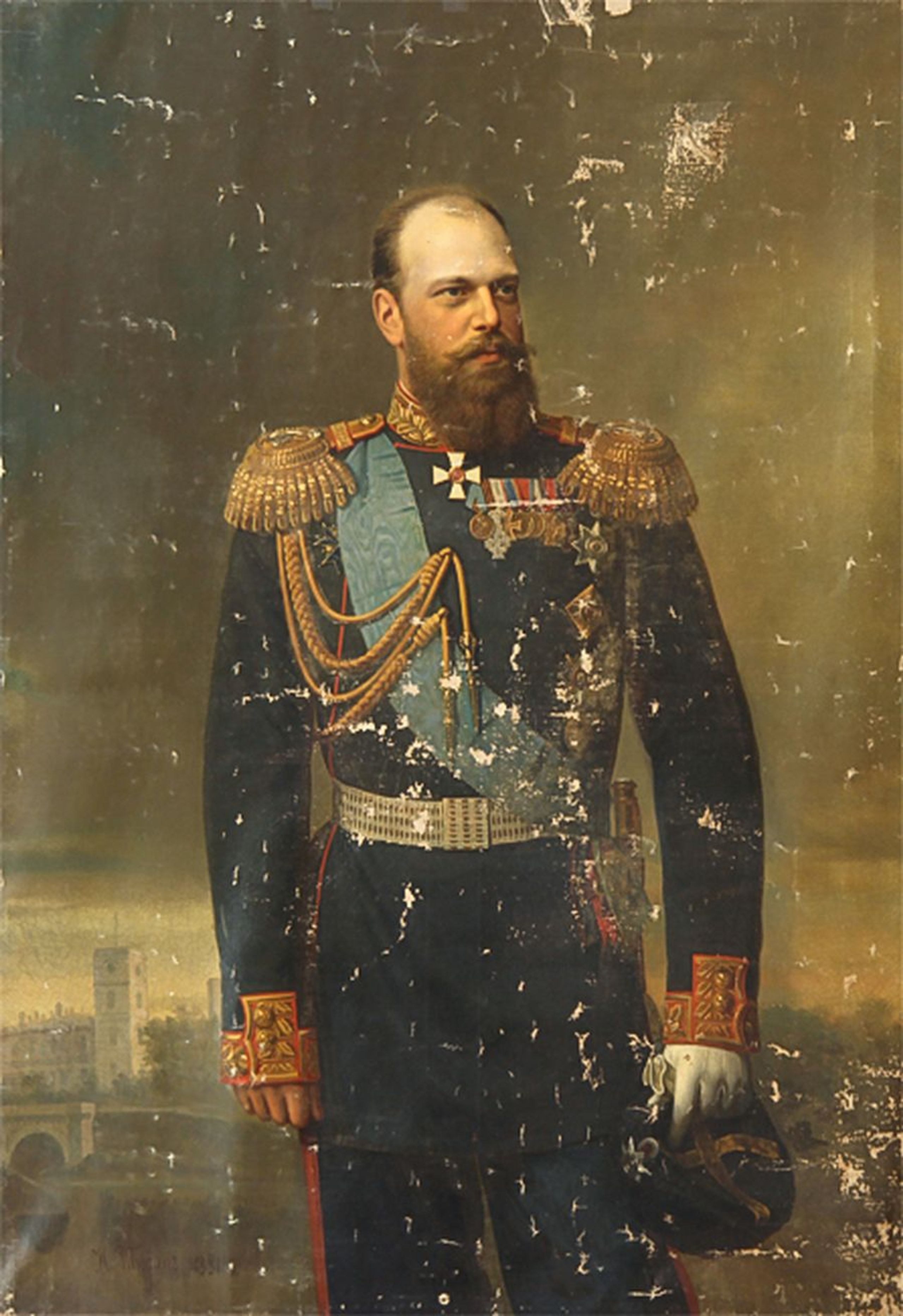 Alexander III (by Ivan Tyurin)